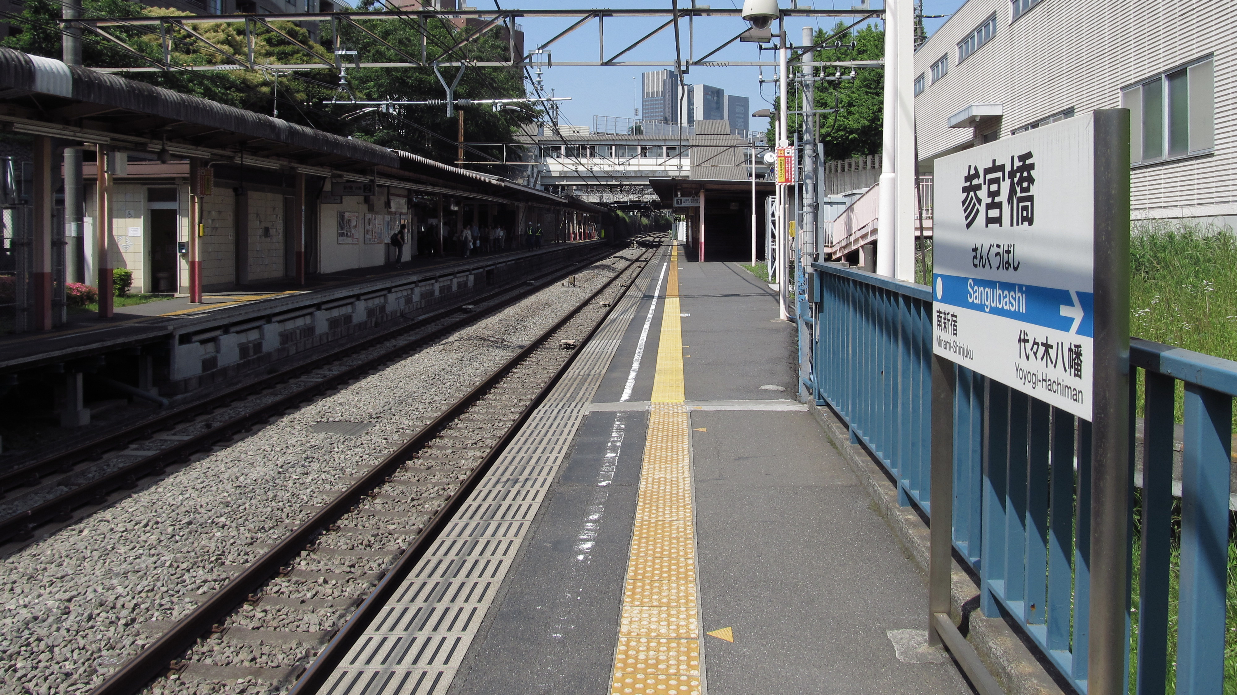 The platforms at Sangūbashi Station on the Odakyū Electric Railway Odawara Line in Shibuya city, Tokyo, Japan